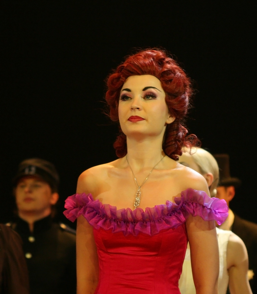 Anna Gigiel as Carlotta Guidicelli, "The Phantom of the Opera", Roma Musical Theatre in Warsaw, 3 June 2008.